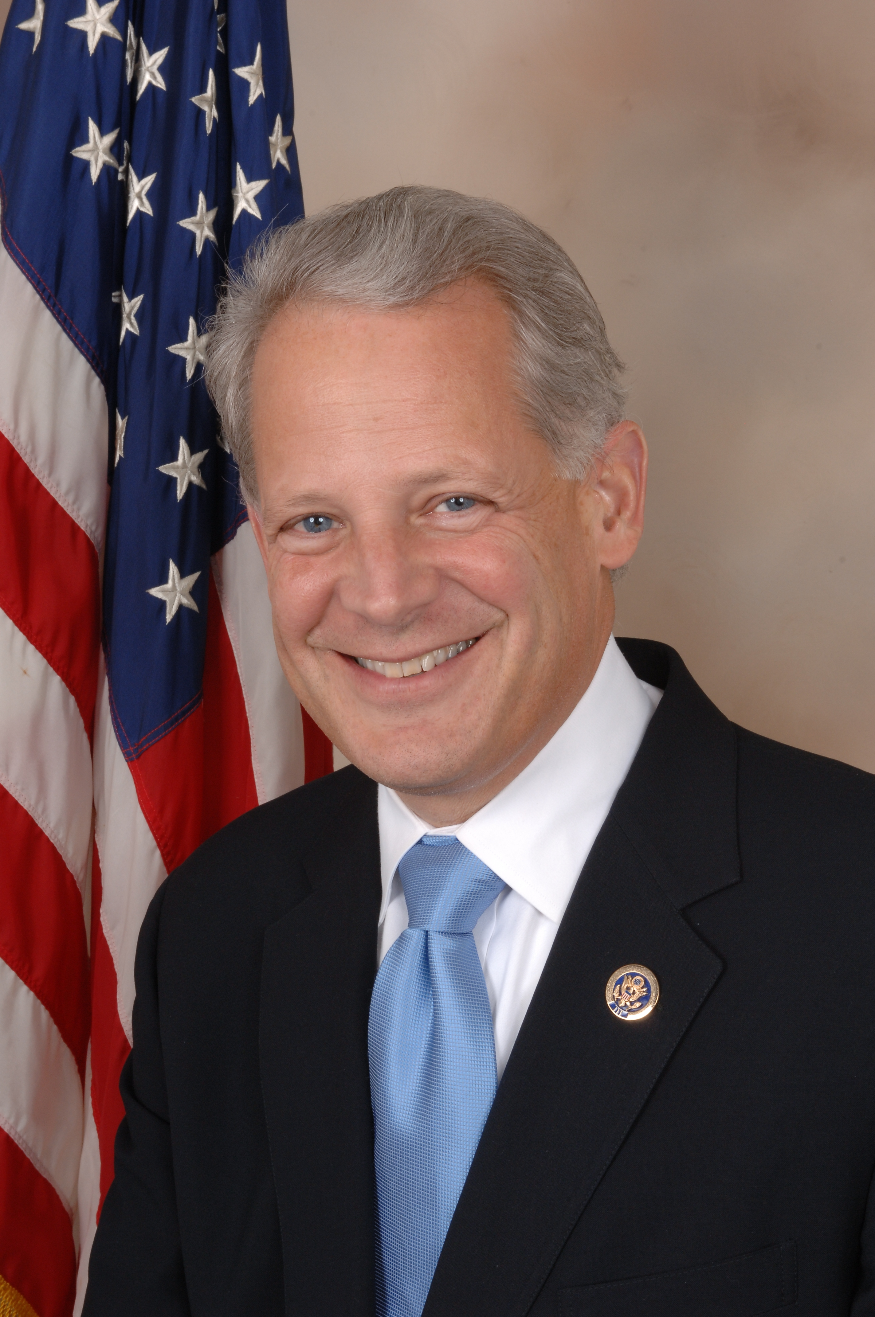 Congressman Steve Israel.